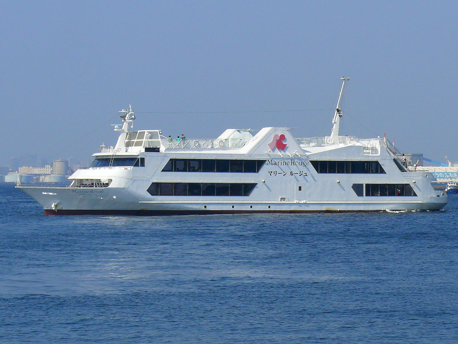 Sea bus that port service operates in Port of Yokohama. (Japan, Kanagawa prefecture, Yokohama City).